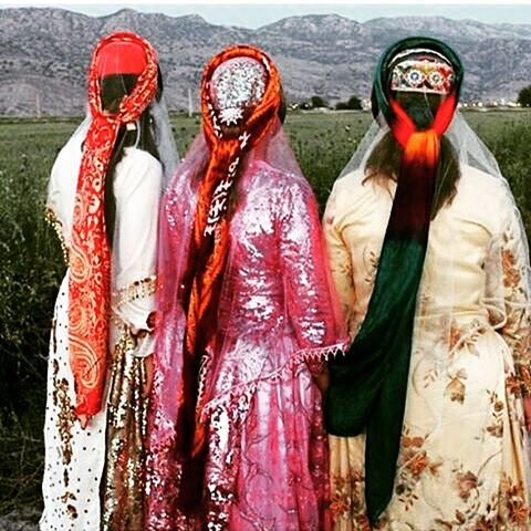 پوشش لری مناطق ممسنی و کهگیلویه و بویراحمد و لرهای جنوبی